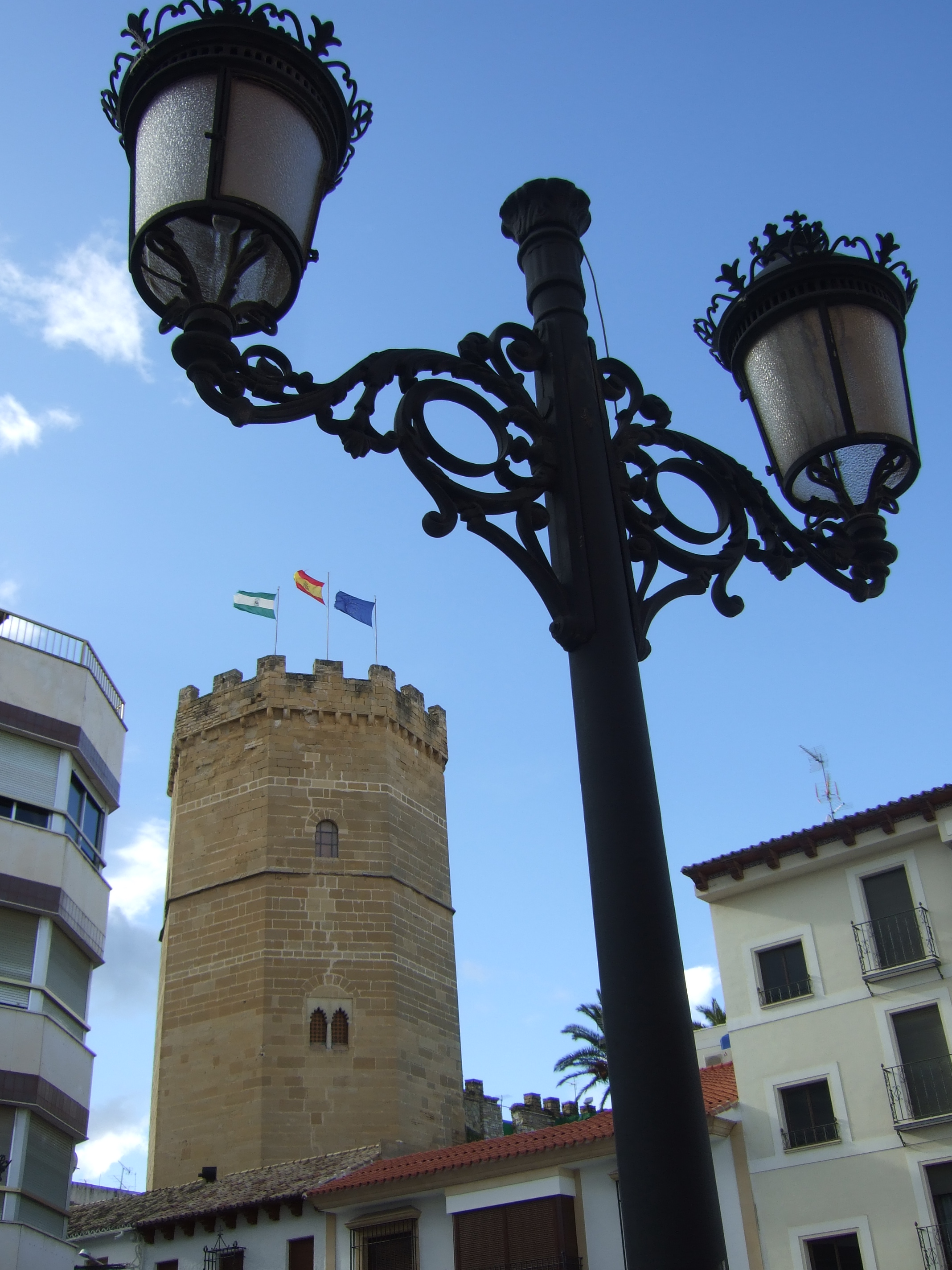 Torre Nueva (New Tower) of the Castle of Porcuna, seen from La Farola